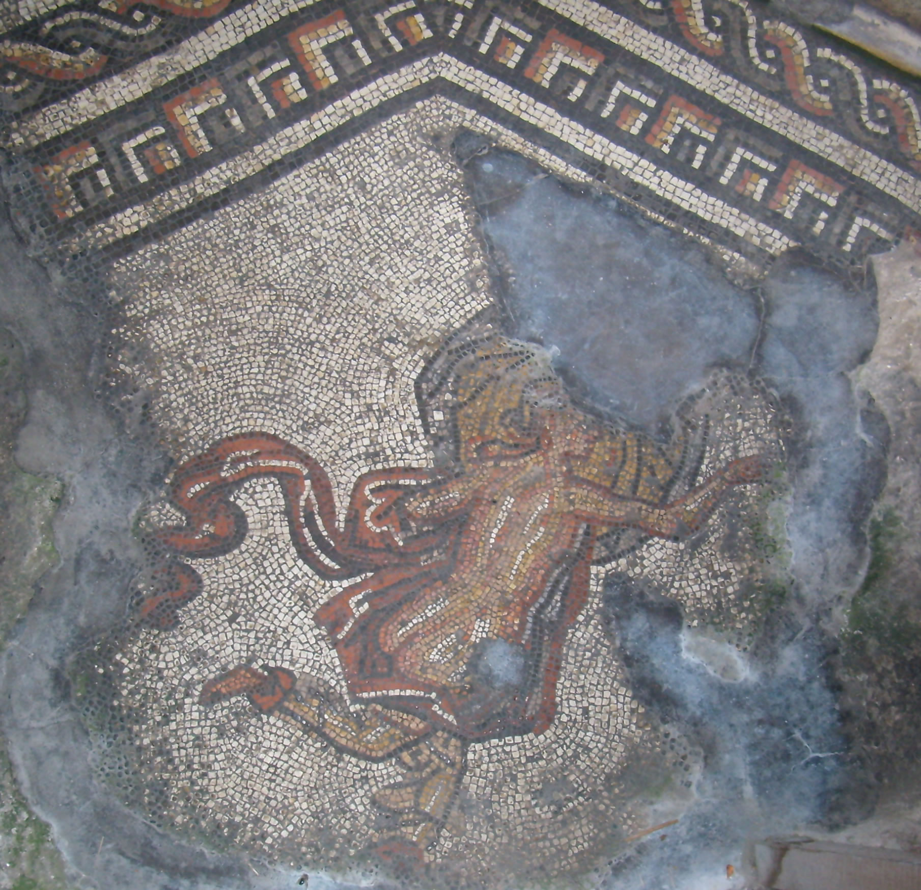 Roman Villa at Bignor, Mosaic